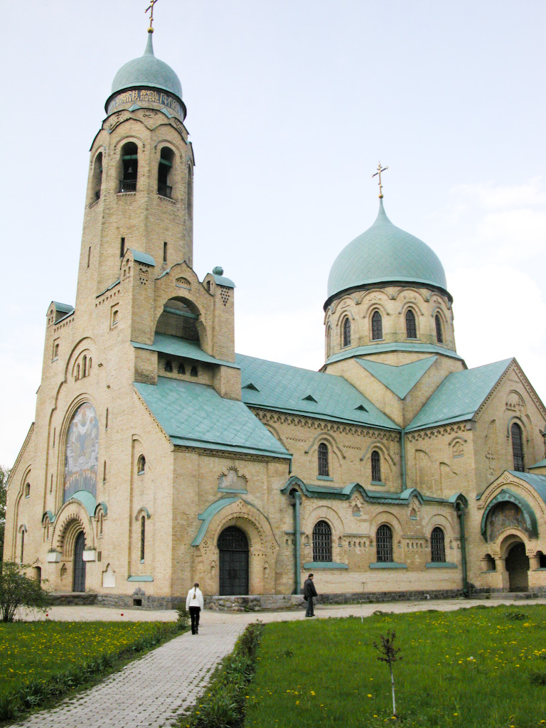 Church of the Intercession in Parkhomivka, Volodarka Raion